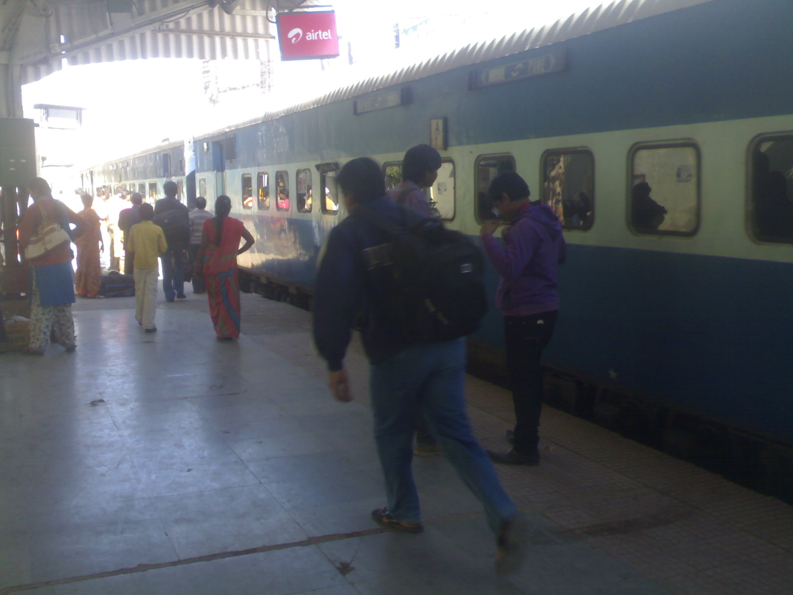 Indore - Pune Express at Vadodara railway station